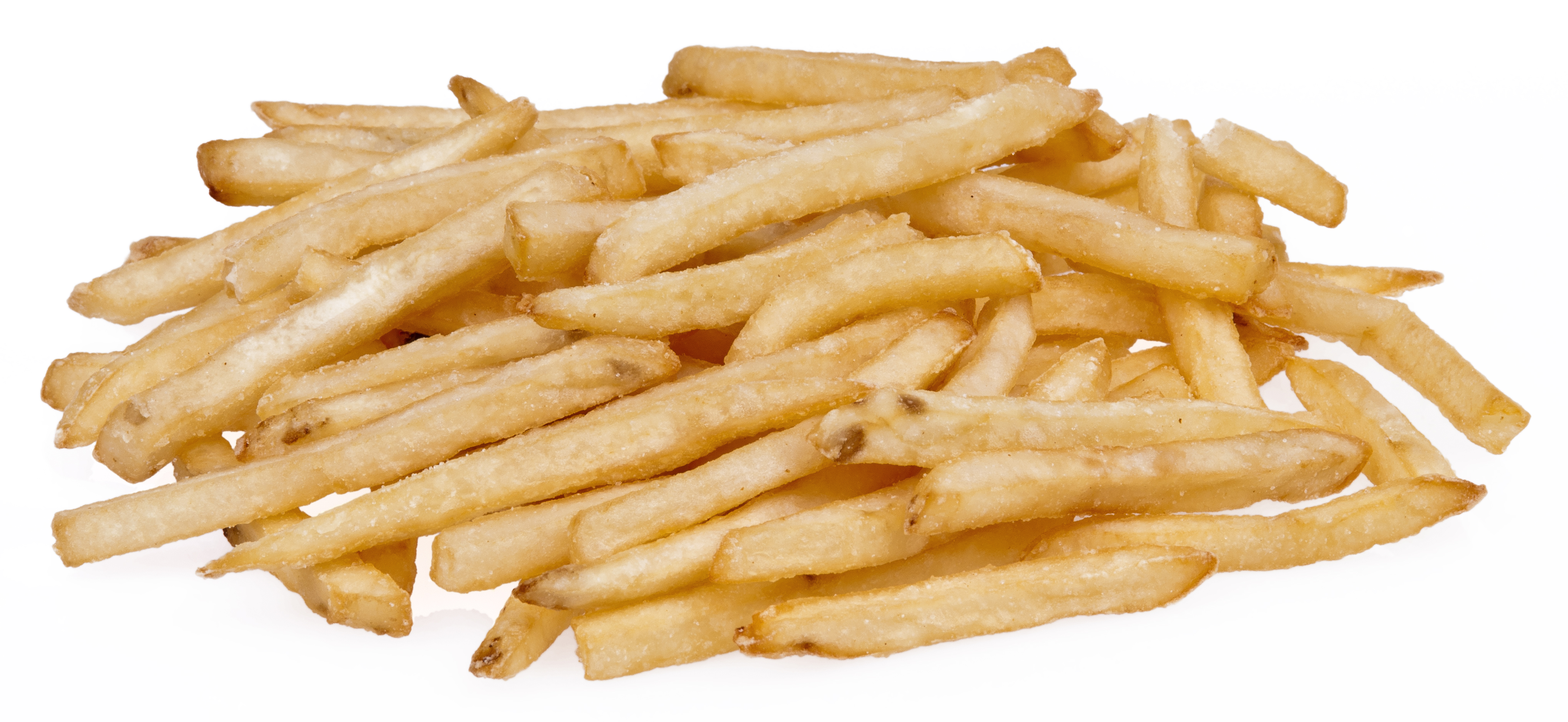 French fries from Burger King.